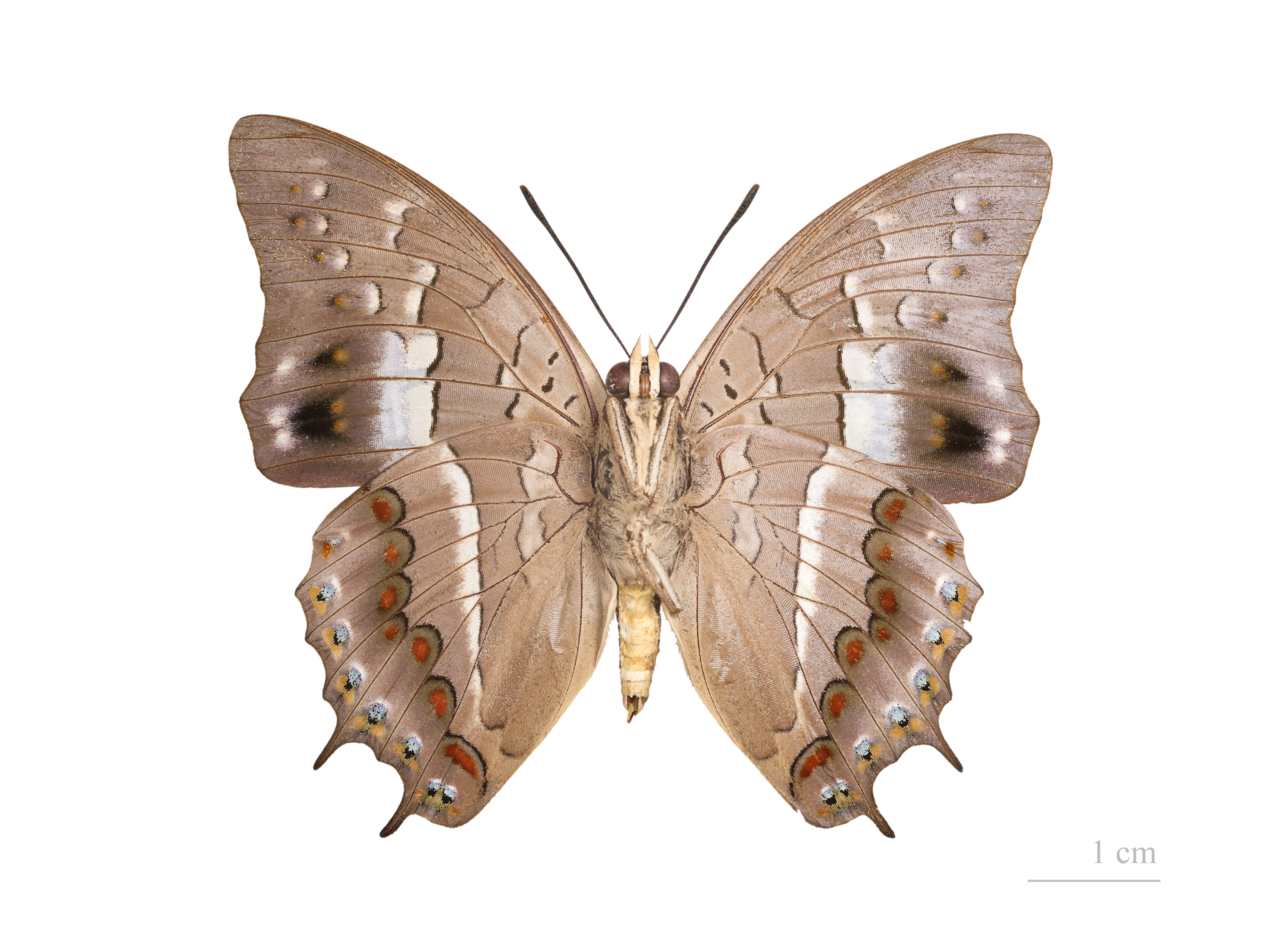 ♂ - △ Ventral side Locality: Sulawesi Indonesia.